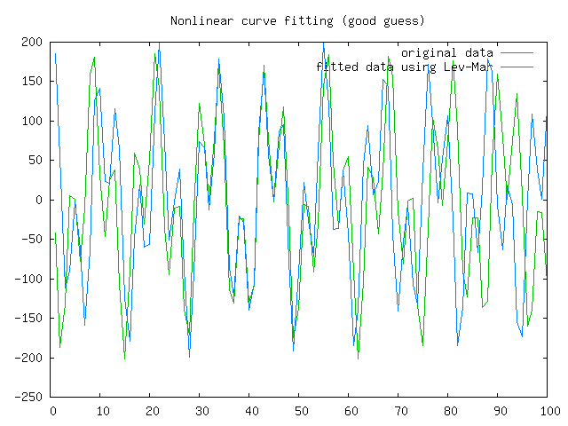 A perfect fit.